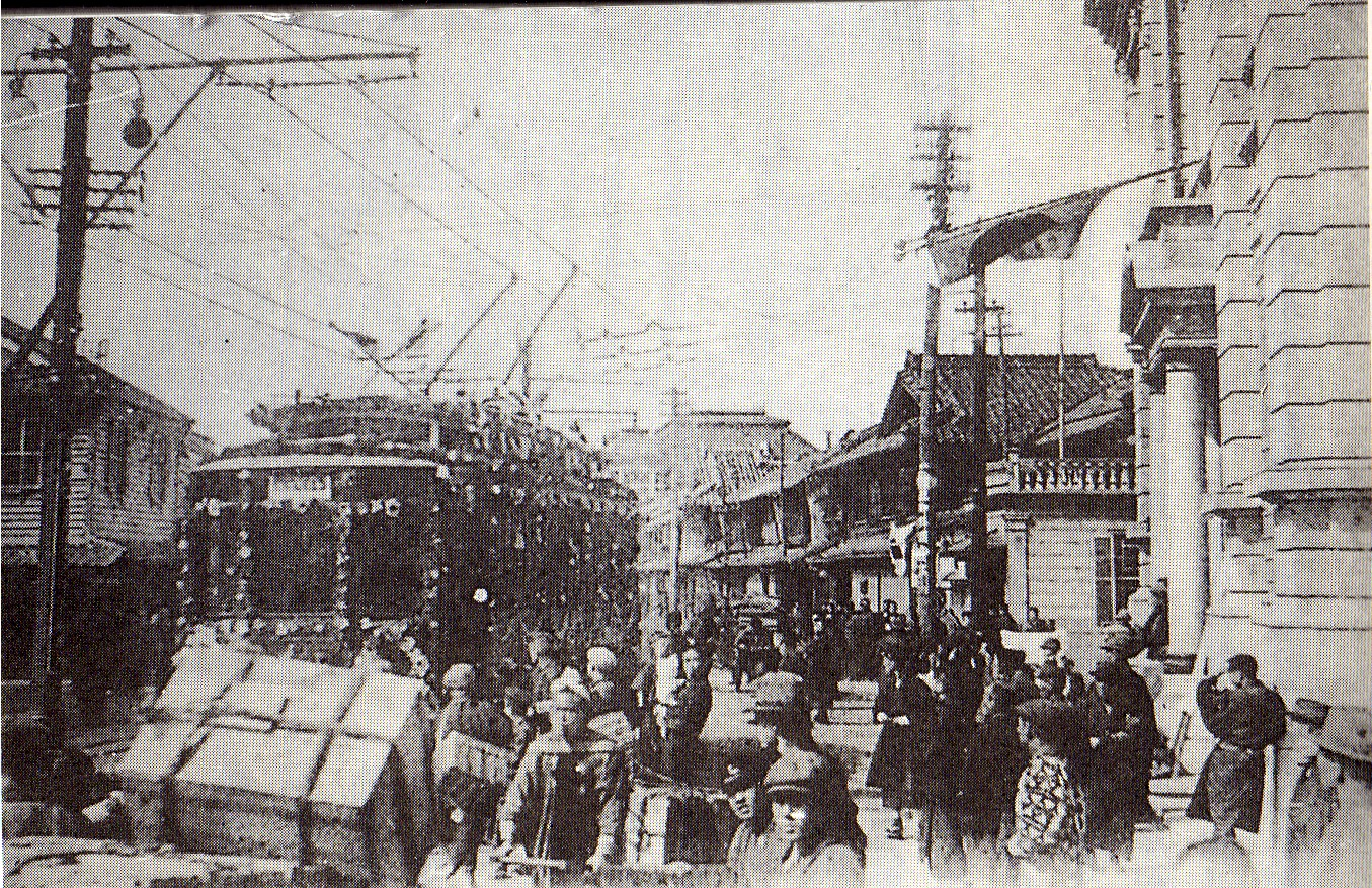 The opening day of the first line of Kobe Electric Railway on April 5, 1910. Later the railway was acquired by Kobe city and became Kobe city transportation bureau.